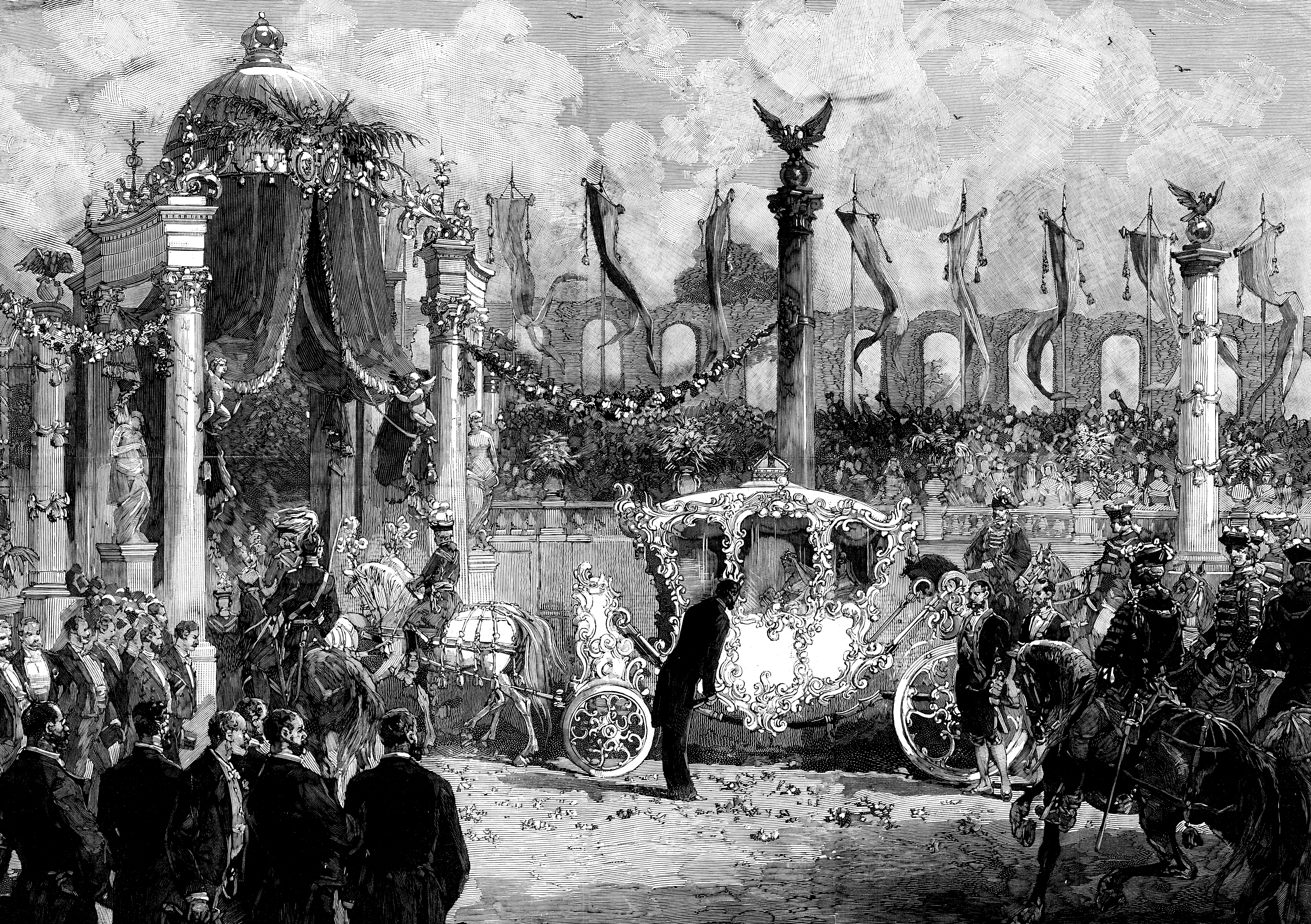 Princess Stéphanie of Belgium is welcomed by the mayor during her marriage to Archduke Rudolph of Austria, Vienna (Austria), 10 May 1881.